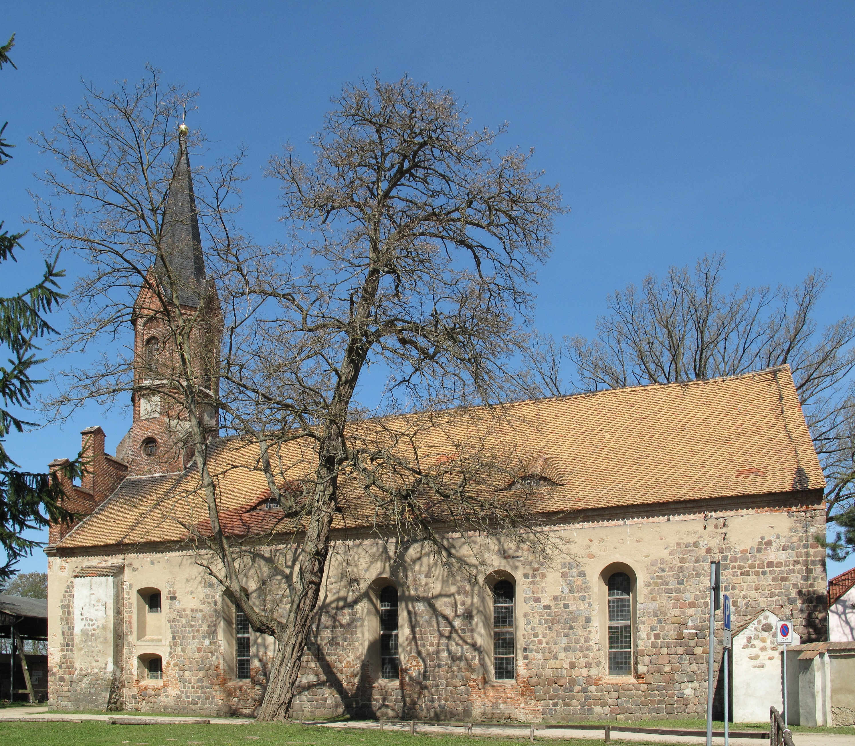 The listed Klosterkirche Altfriedland is the former church of the Cistercian Nunnery Friedland in Altfriedland, a village of the municipality Neuhardenberg in the District Märkisch-Oderland, Brandenburg, Germany. The early gothic-Fieldstone church was remodelled several times and is used today as Protestant village church. It was built around 1250. The picture shows the south facade.